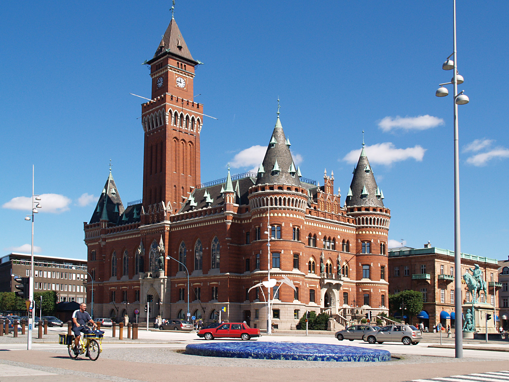 Town hall of Helsingborg, Sweden